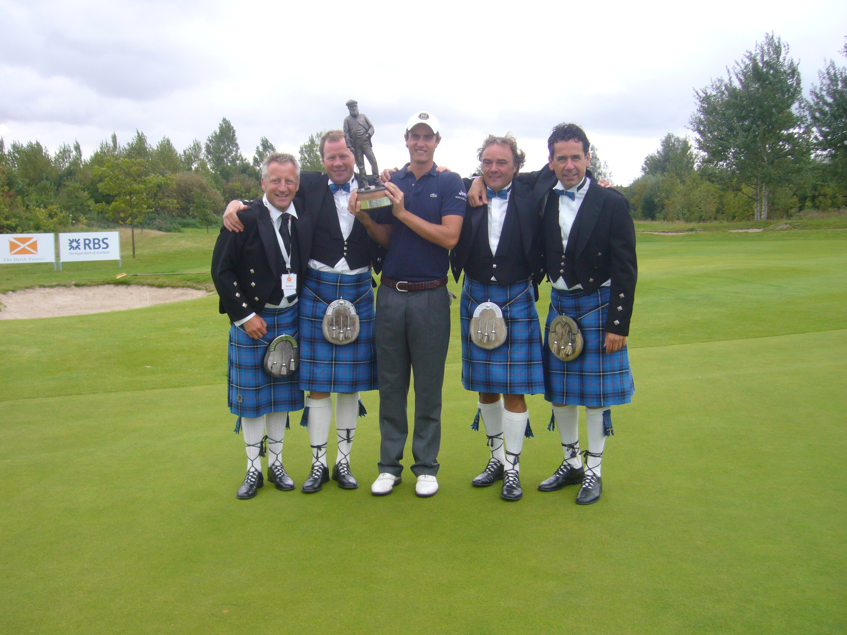 Nicolas Colsaerts with Made in Scotland